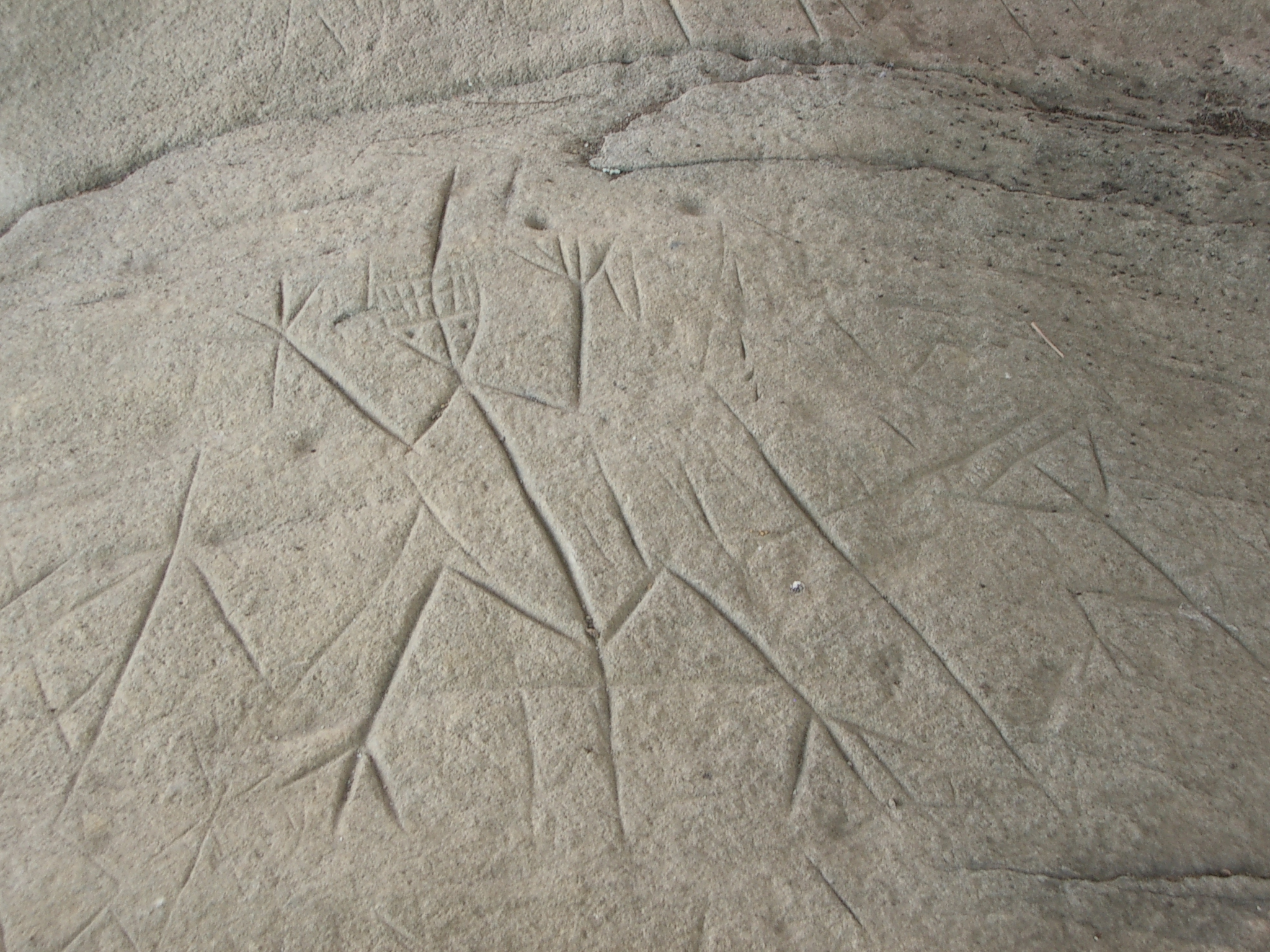 Please report references to .